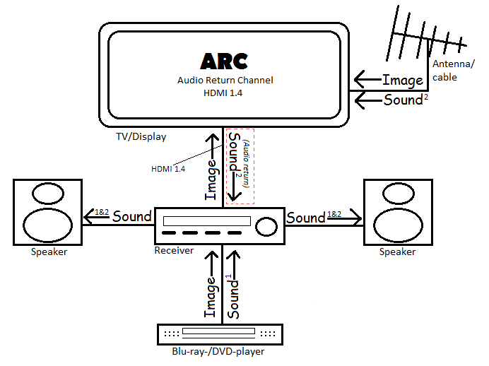 Audio Return Channel (ARC) allows audio to pass "the opposite way" through an HDMI 1.4-cable. This can eliminate the need for a second audio cable I.E. if you want to pass TV-audio through a receiver.